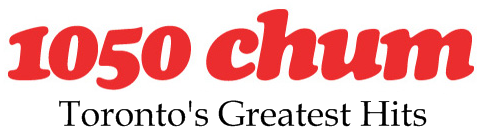 The logo is from the website.